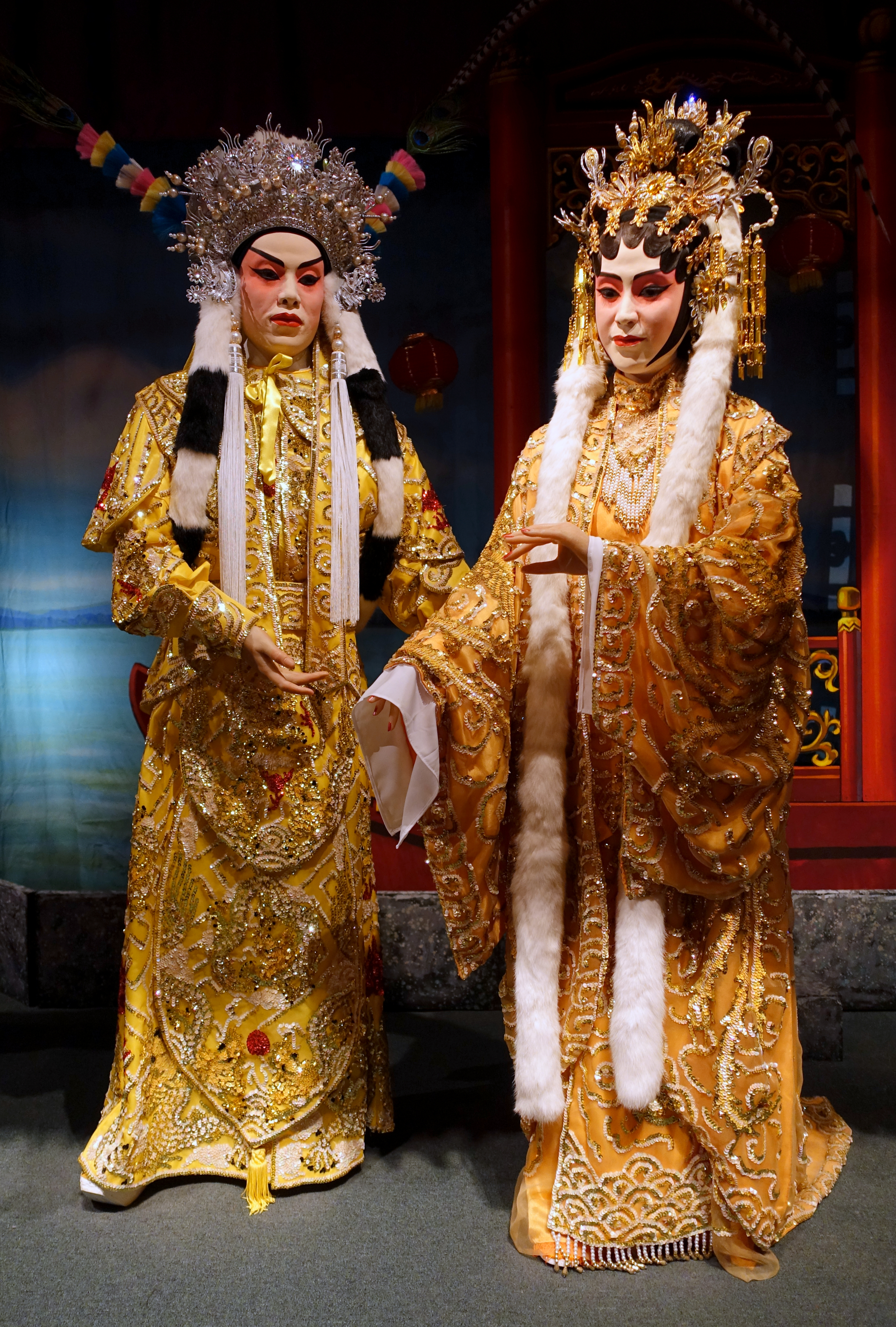 Exhibit in the Hong Kong Museum of History, Hong Kong. This artwork is old enough so that it is in the public domain.